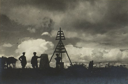 Bulgaria